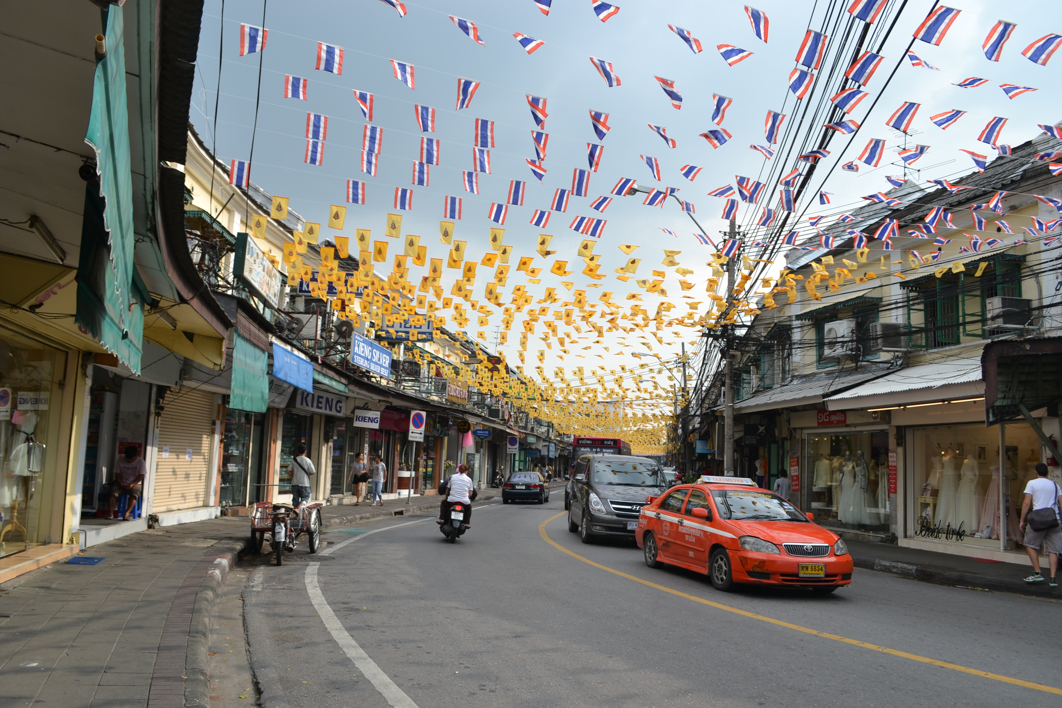 Street decoration close to Kao San Road in Bangkok, Thailand.